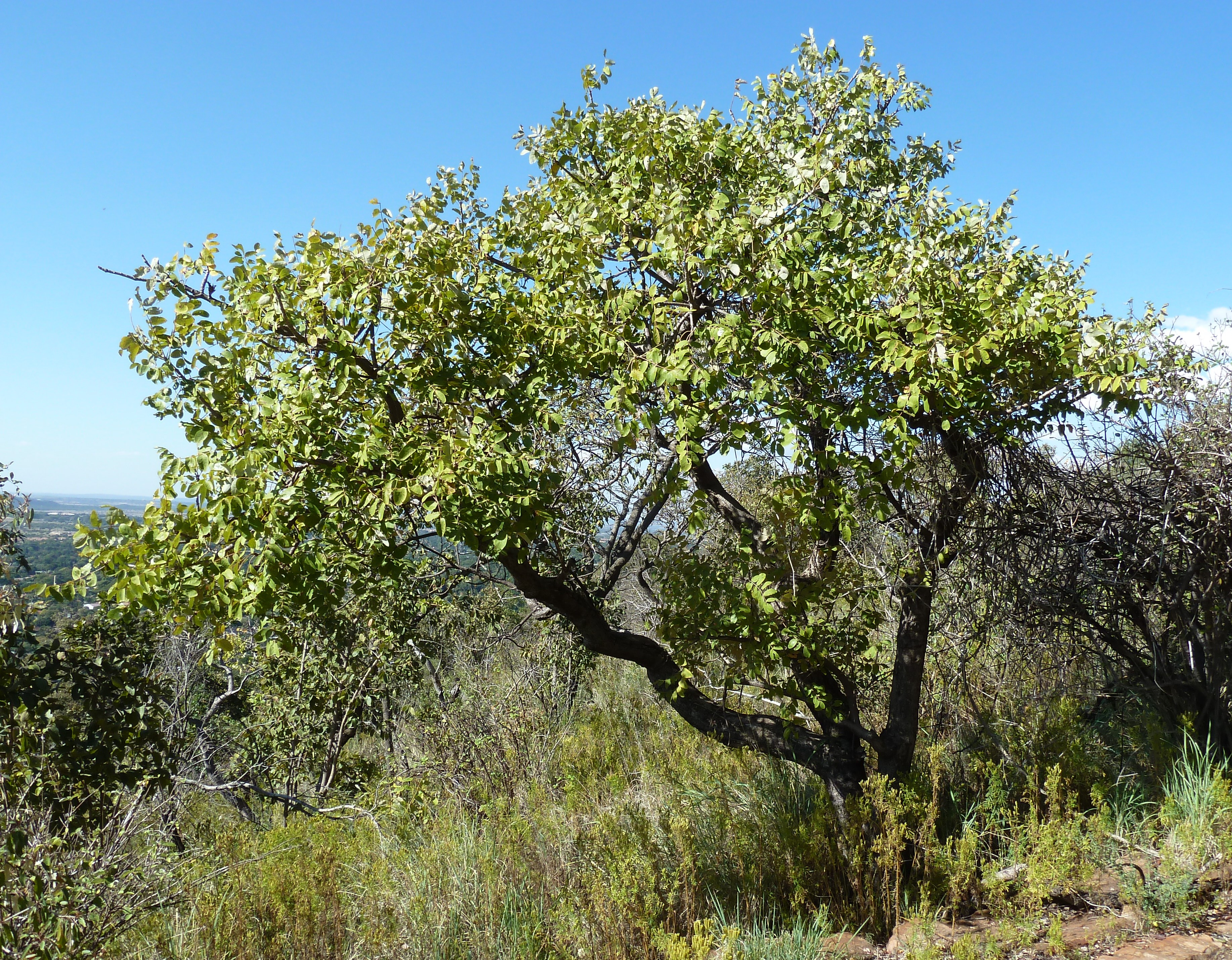 Live-long on the north slope of the Magaliesberg in the Wonderboom Nature Reserve, Pretoria